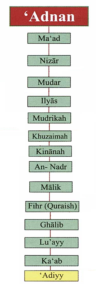 A genealogy of the Banu Adiy tribe.